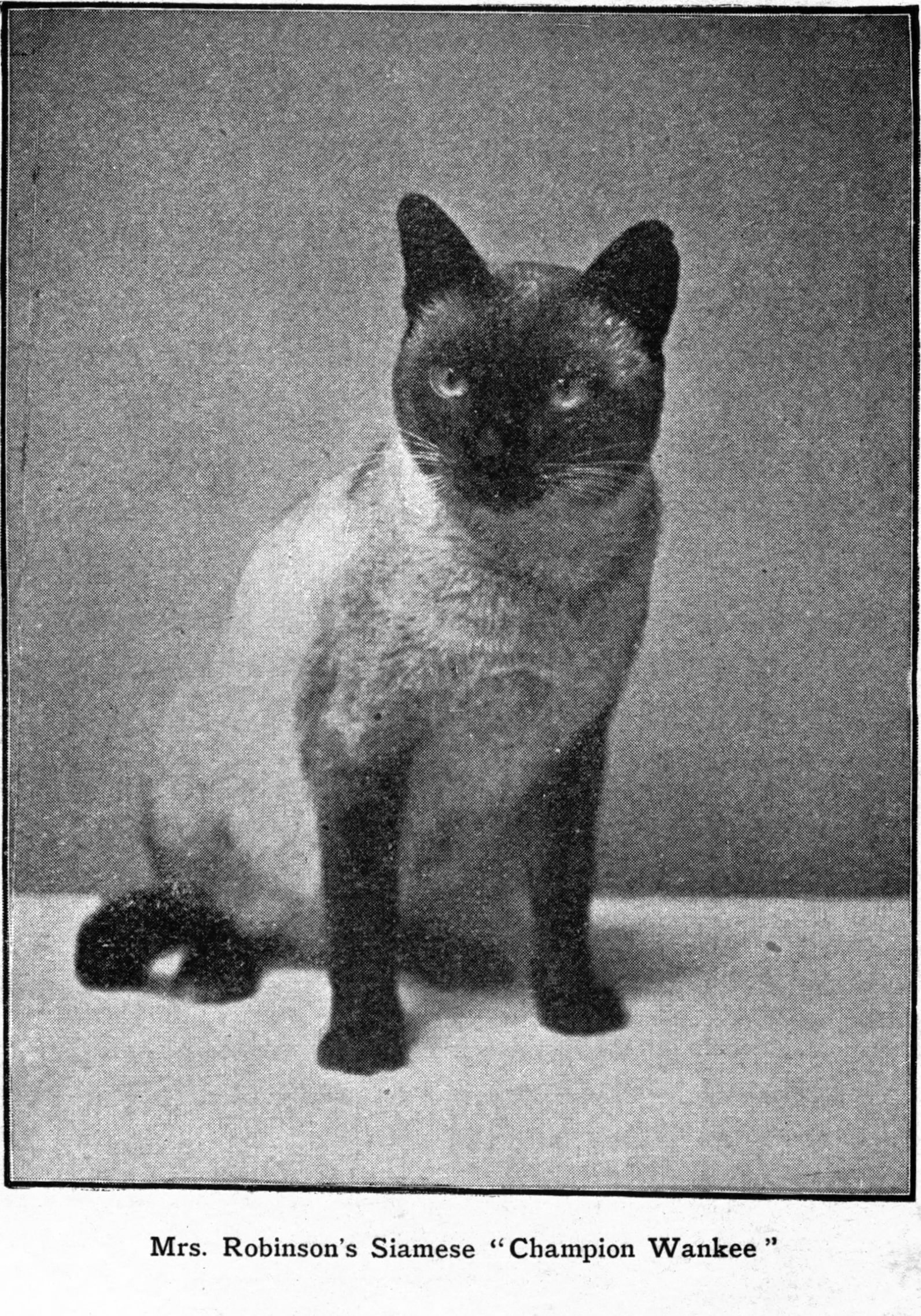 "CHAMPION WANKEE, the noted Siamese, is owned by Mrs. Robinson, of West Kensington, who has always been a enthusiastic and successful breeder of Siamese. He ha won over 30 prizes, and sired, among other notabl kittens, Beba, Menelik, Sam Sly, and Chaseley Robin all winners of championships"